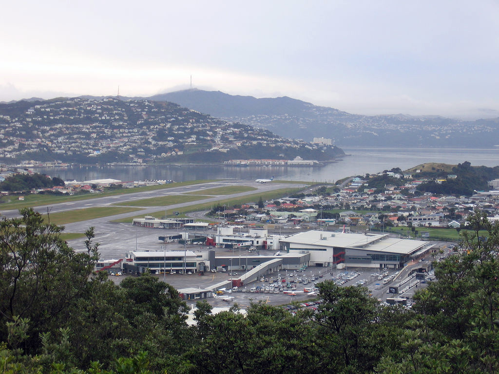 Wellington Airport, New Zealand.